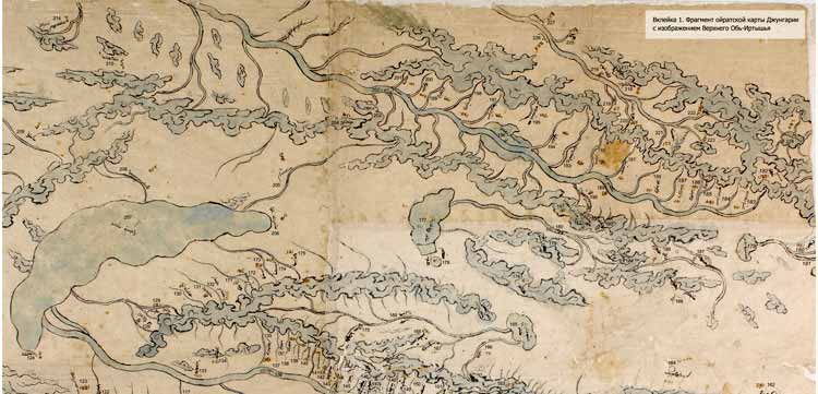 Ili, Ob, Irtysh rivers and lake Balkhash